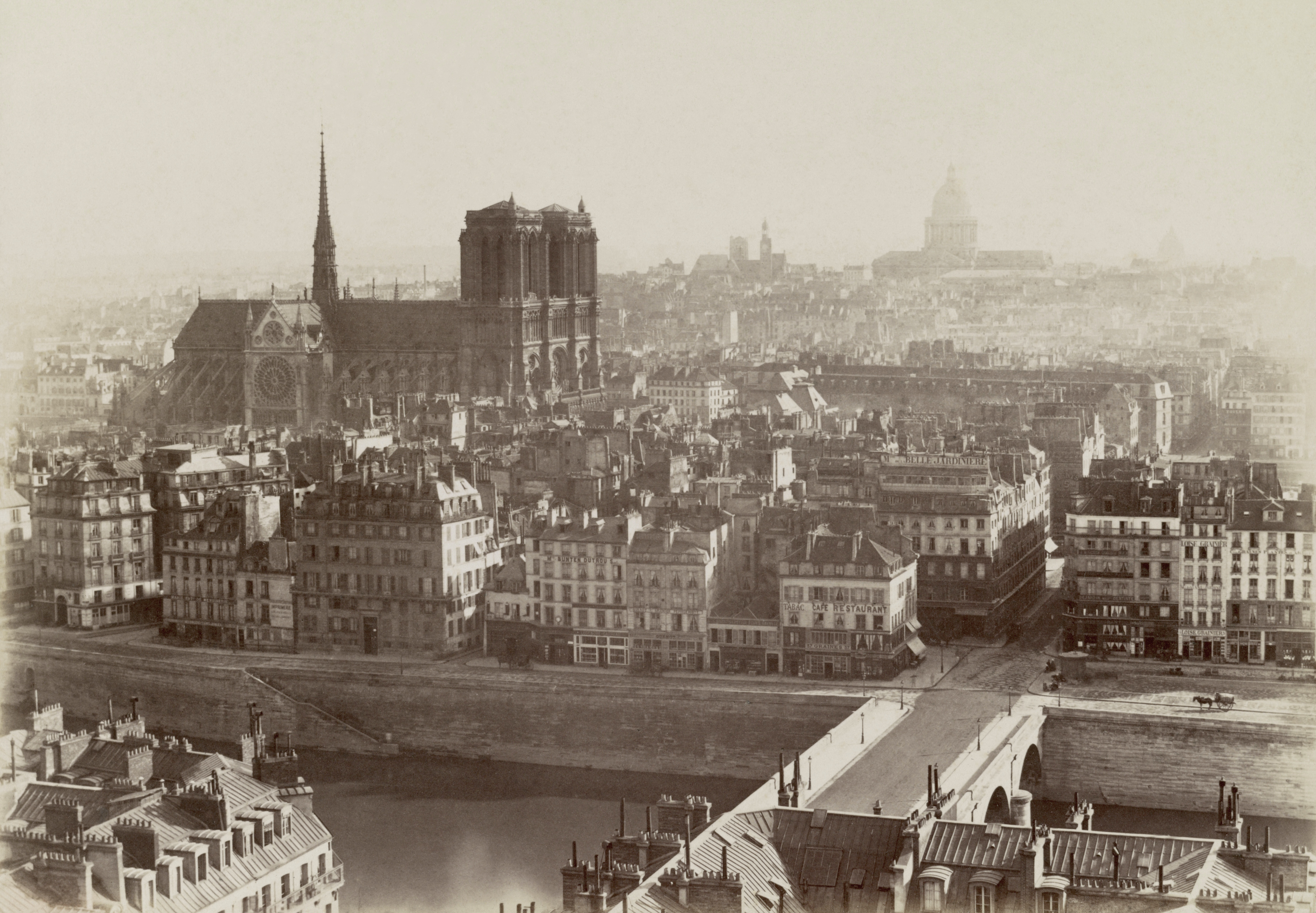 Photograph shows view of Notre-Dame de Paris rising above Ile de la Cité.